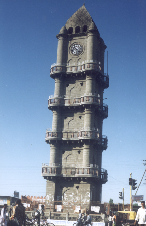 Sundarabai Khandelwal Tower is a landmark of Akola city, India.